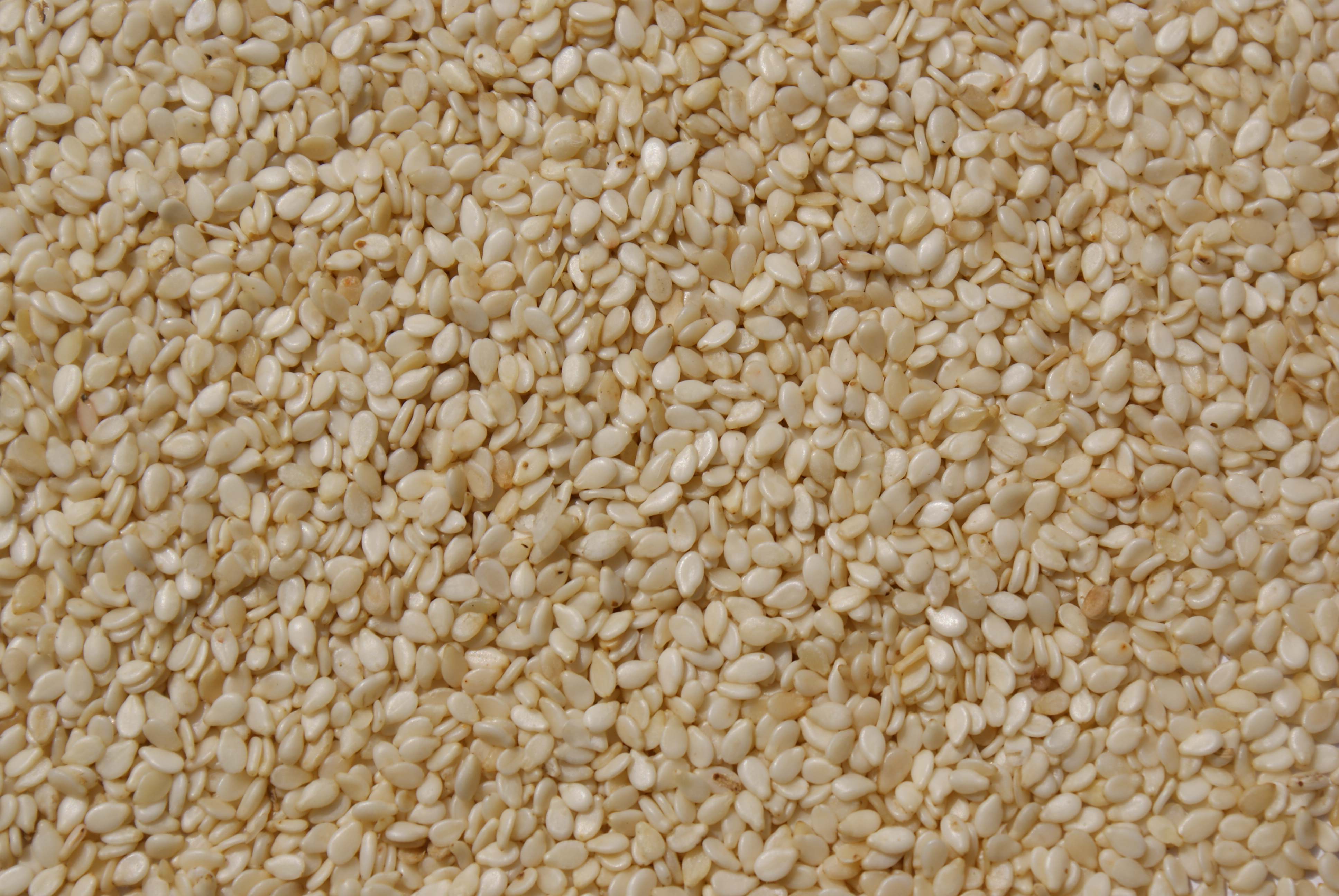 Sesame seeds are widely grown and processed in various parts of India. They are known for the sesameic oil extracted from them